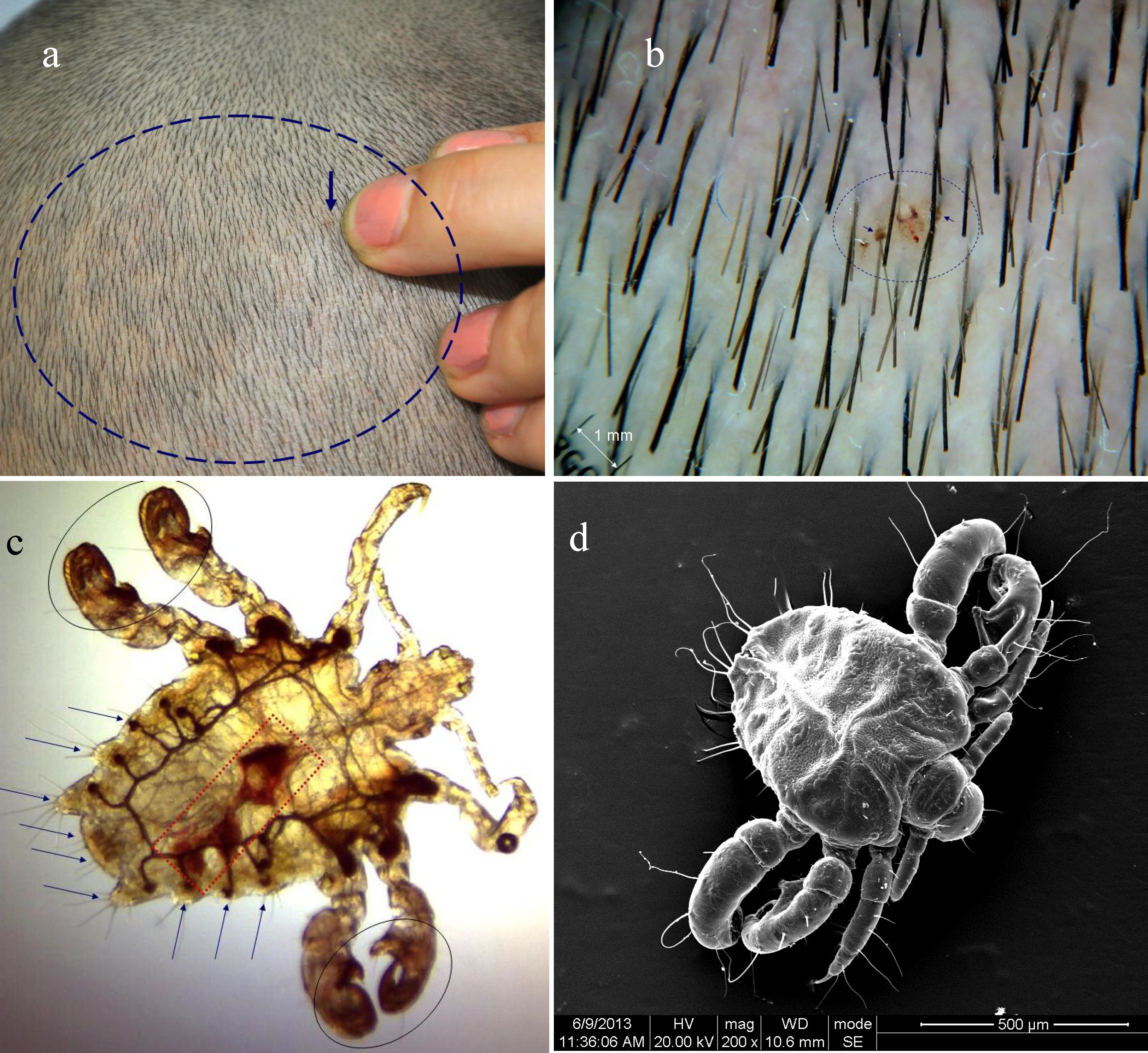 a. There were some small pieces of erythema (in the circle) and a brown dot-like substance on the scalp (arrow). b. The dermoscopy revealed a brown parasite (0.9 mm in horizontal axes and 1.2 mm in vertical axes) with two crab-like feet adhered to the scalp. c. Under the microscope, the parasite was characterized by a flat body like a crab and three pairs of feet in different sizes. There was an area (red box) full of blood in the middle part of the parasite. A large number of short setae (arrow) were noted at the edge of the parasite abdomen. d. The SEM showed a vivid three-dimensional ultrastructure of the parasite: the whole body was composed of three parts including spherical head, chest, and elliptical abdomen; a pair of feelers was noted on the head; the three pairs of feet were in shaped section and curved serrated claws were noted at the end of foot; short setae in different length were not only at the edge of the abdomen but also on the feet.